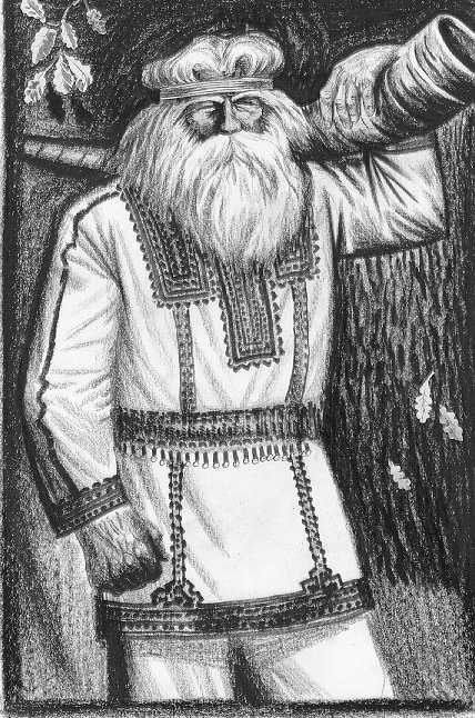 Mordvinian King Tyushtya